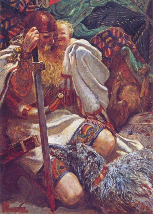 Who Knoweth the Spirit of Man...The full title of this painting is: 'WHO KNOWETH THE SPIRIT OF MAN THAT GOETH UPWARD AND THE SPIRIT OF THE BEAST THAT GOETH DOWNWARD TO THE EARTH' – Ecclesiastes, Chapter III, verse 21.